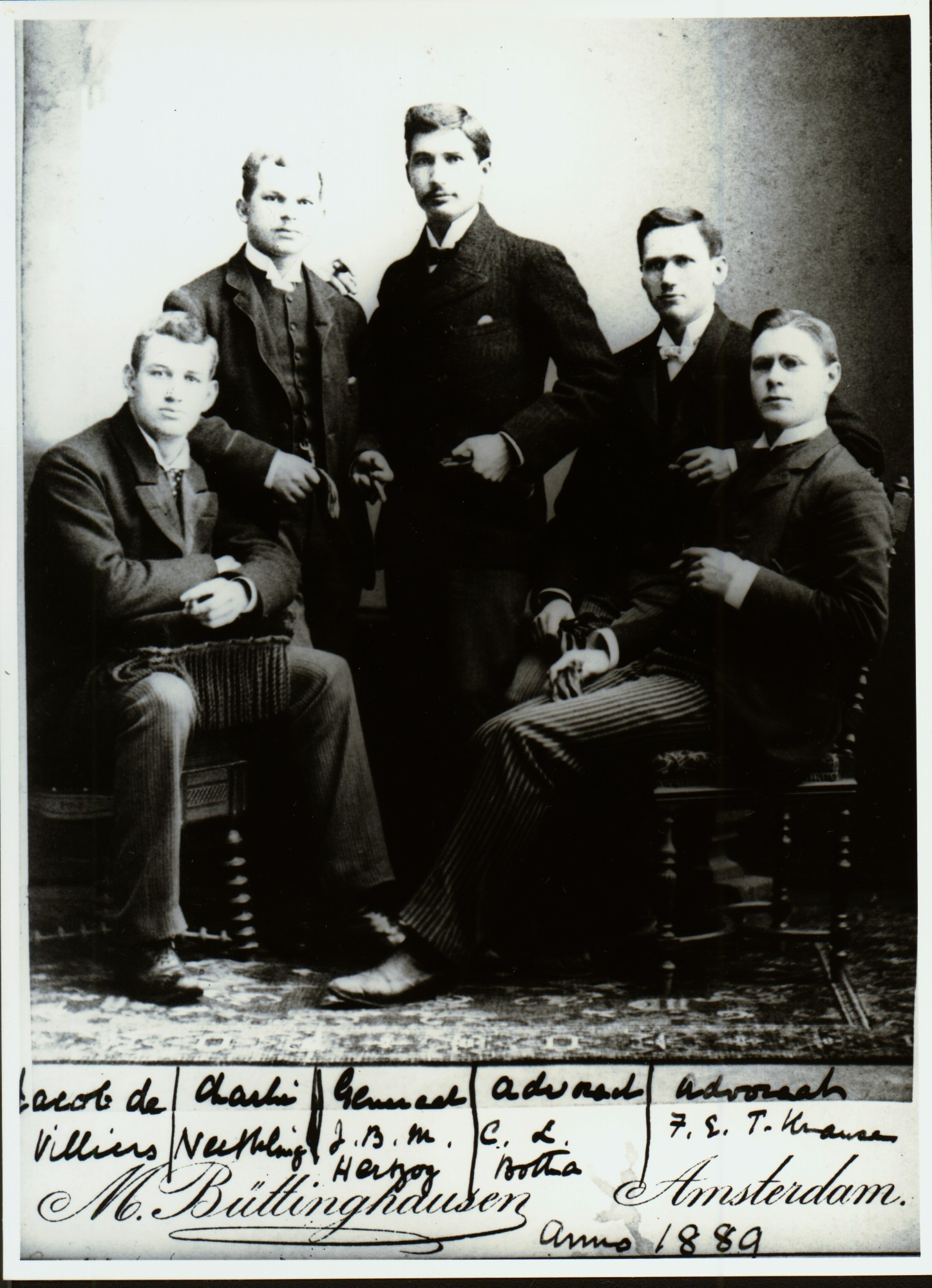 Law students in Amsterdam in 1889. Include South Africans Jacob de Villiers, JBM Hertzog and FET KRause